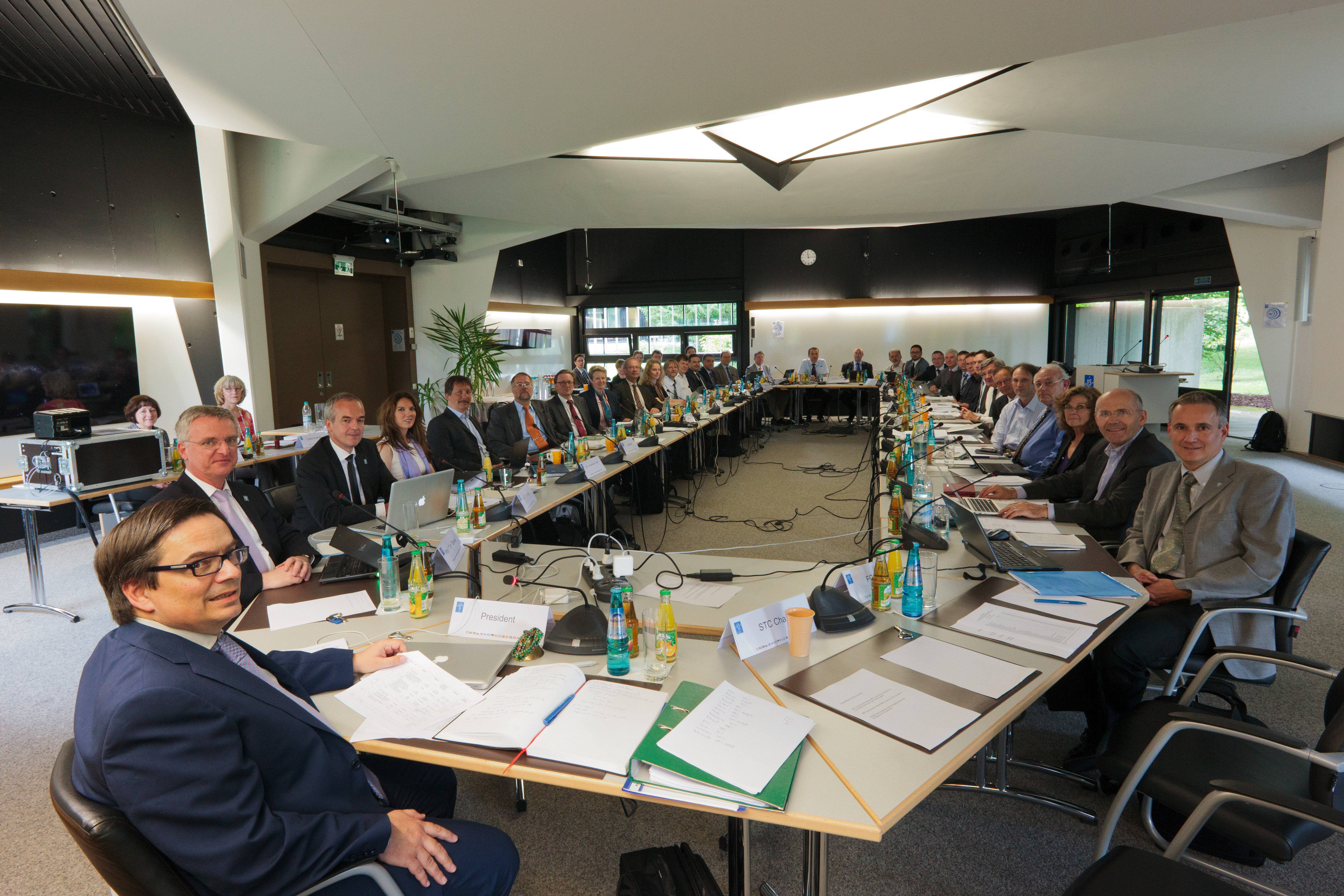 This picture was taken at ESO’s Garching Headquarters during the historic Council meeting of 11–12 June 2012 when the E-ELT programme was approved (subject to confirmation of the so-called ad referendum votes). For a glimpse back in time compare with the photo at the Council approval of the VLT in December 1987.